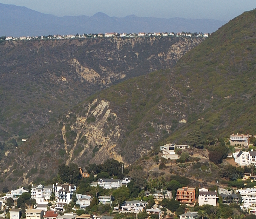 View of Laguna Beach, CA in the Aliso Canyon area.